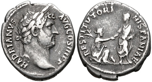 Hadrian. AD 117-138. AR Denarius (16.5mm, 3.25 g, 6h). “Restitutor” series. Rome mint. Struck circa AD 134-138. Laureate head right / RESTITVTORI HISPANIAE, Hadrian standing left, holding volumen, about to raise Hispania who is kneeling right, holding a branch; rabbit between them. RIC II 326; RSC 1270. Near VF, toned, a few shallow scratches.